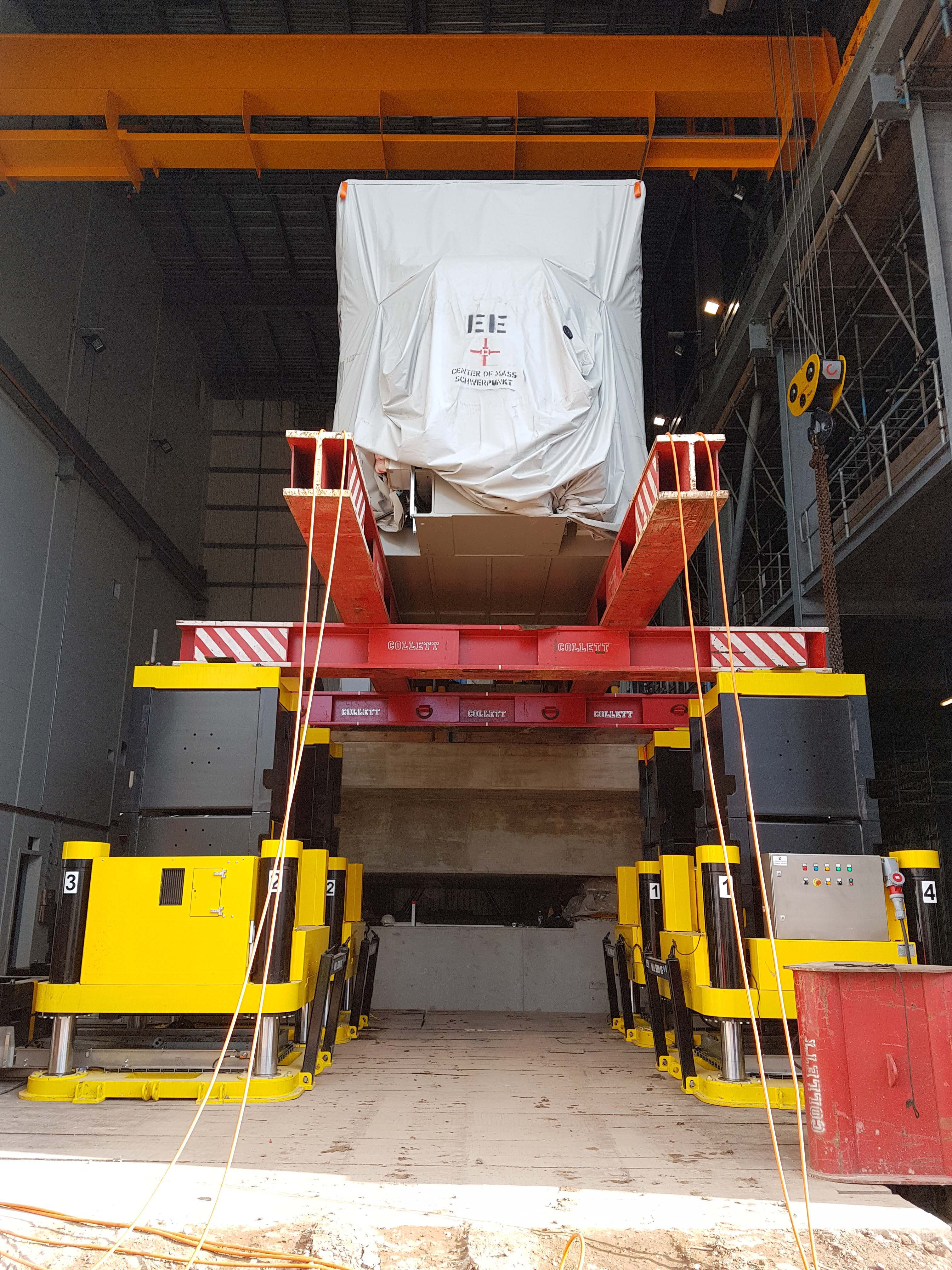 Collett utilise Enerpac 1000 tonne capacity JS-250 Jack-Up system for 100 tonne steam turbine & 60 tonne generator; see [1].